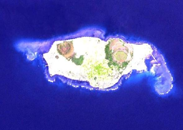 Cu Lao Re Volcano in Quang Ngai Vietnam